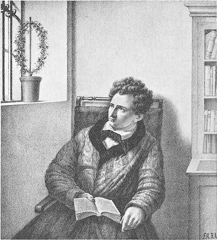 Orla Lehmann i fængsel. Litografi af V. Koch efter tegning af P.E. Lorentzen.